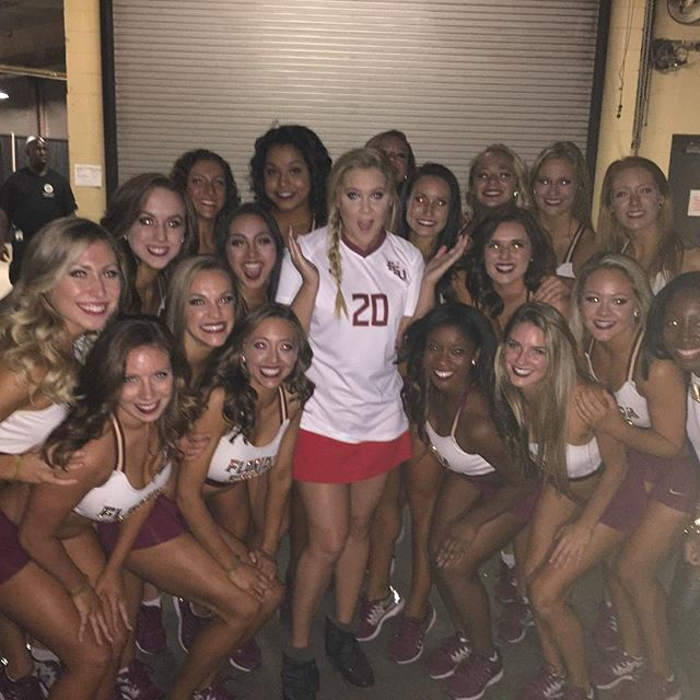 Amy Schumer with the Golden Girls at FSU's Pow Wow, 2016